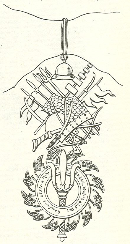 Order of Chakri, Thailand